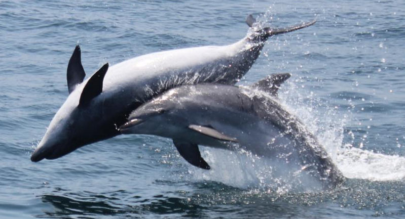 Photo taken by Graham Hesketh of Dolphin Safari Gibraltar 2012